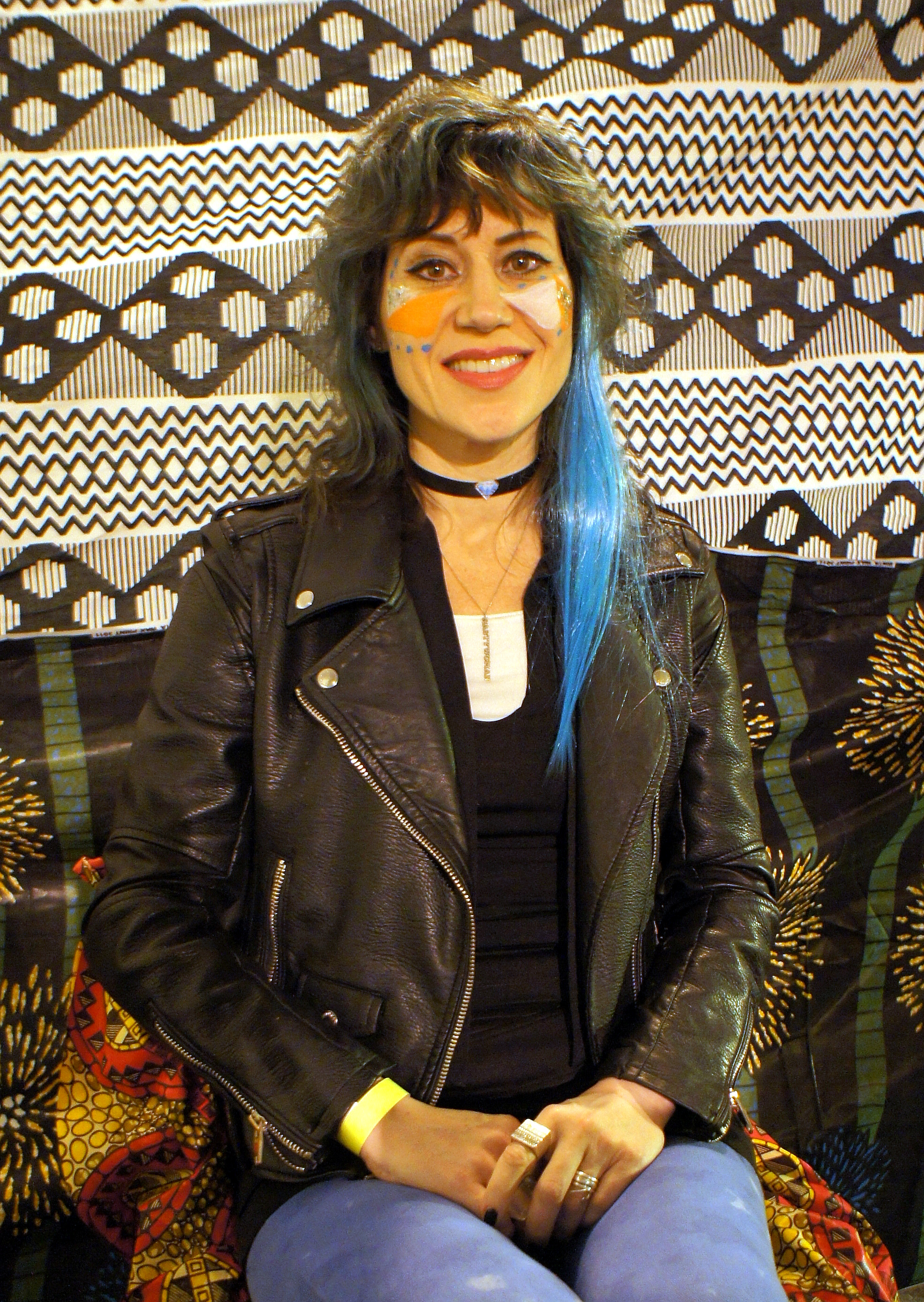 Carla Gannis, artist, feminist and educator at Past and Future Fictions at MoMA PS1 in the VW Dome with Art + Feminism.